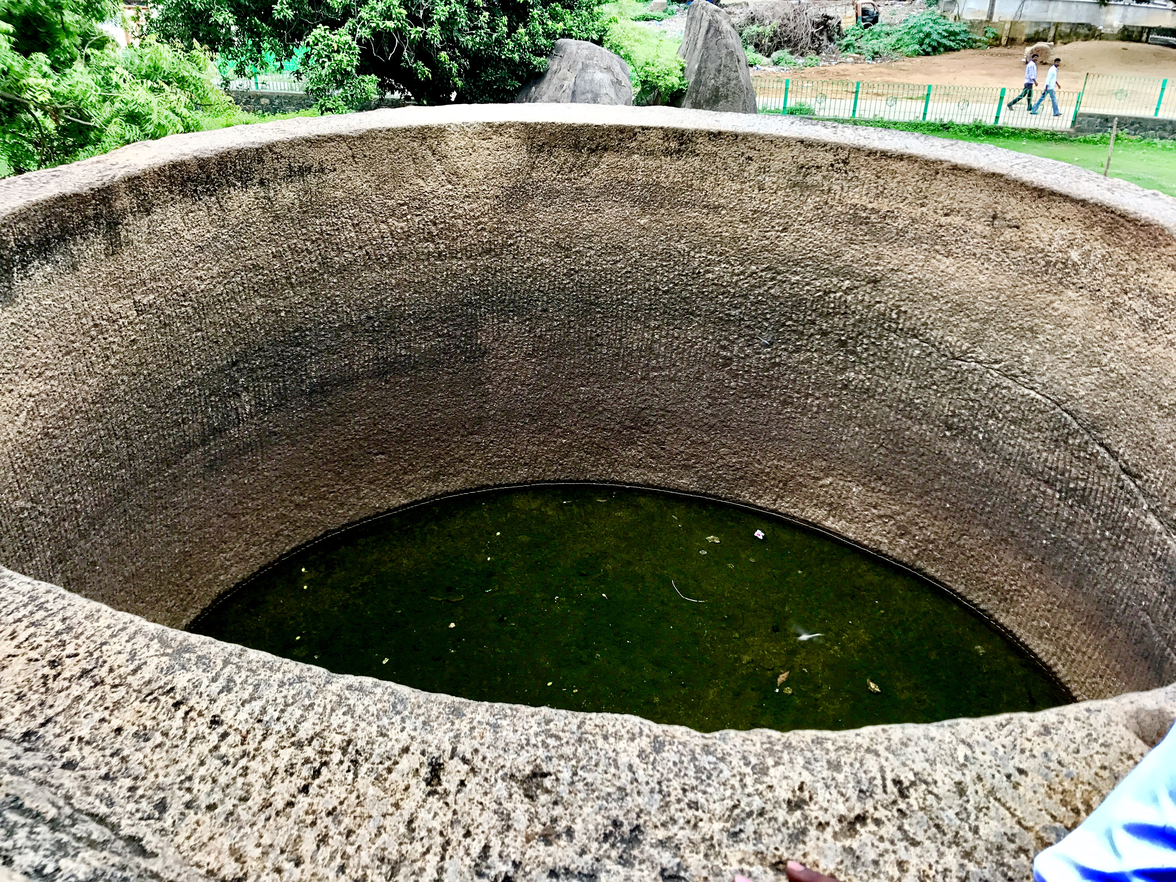 Butter well at Mahabalipuram